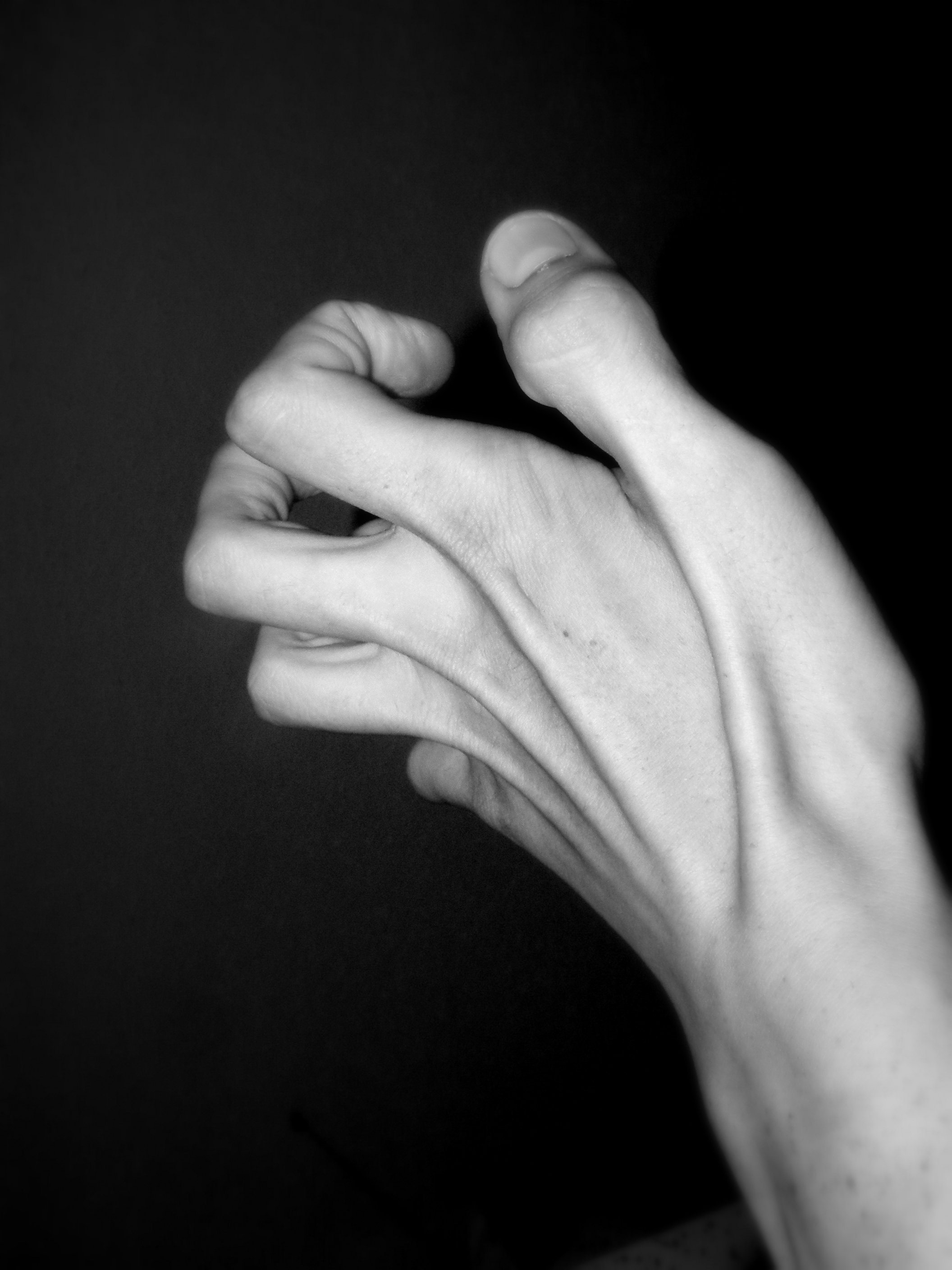 black and white photo of a claw shaped hand making a gesture of stress